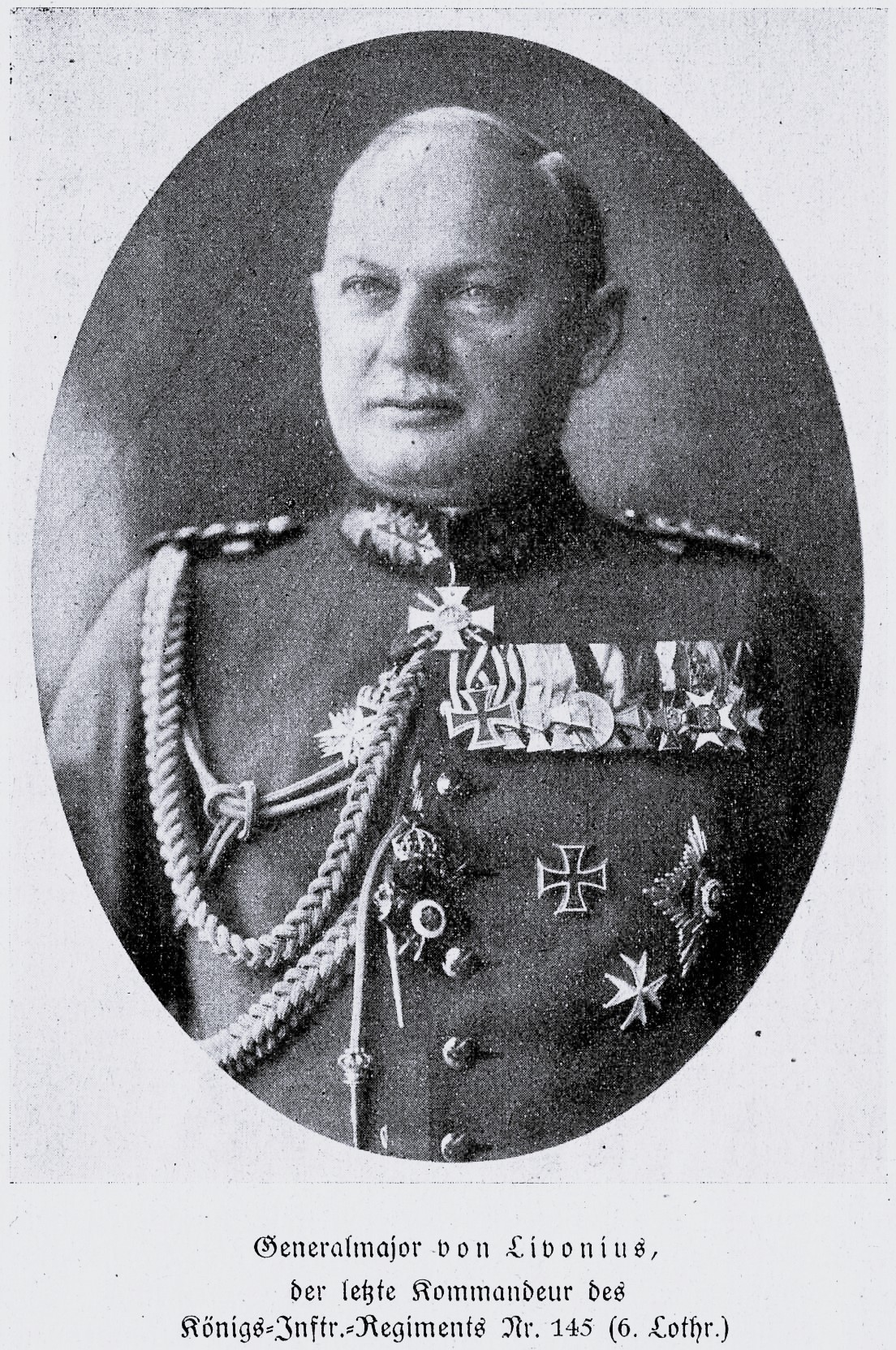 prussain major general Willy von Livonius (last commander from the Kings-Infantry-Regiment Nr.145)